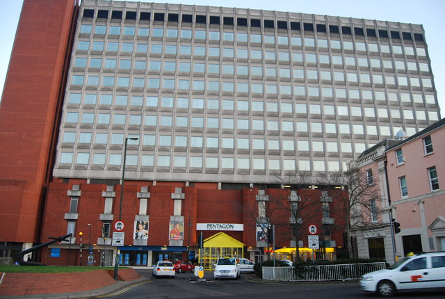 Pentagon Shopping Centre, Chatham